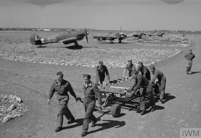 ROYAL AIR FORCE: ITALY, THE BALKANS AND SOUTH-EAST EUROPE, 1942-1945. (CNA 3500) Yugoslav groundcrew wheel a trolley of 3-inch rocket projectiles past re-armed Hawker Hurricane Mark IVs of No. 351 (Yugoslav) Squadron RAF in their dispersals at Prkos, Yugoslavia. Copyright: � IWM. Original